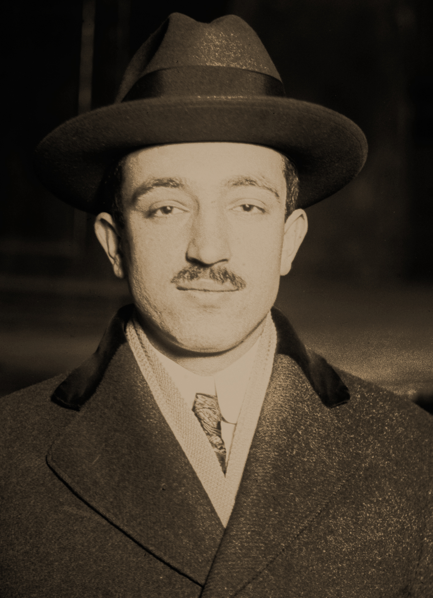 Samuel Orr, New York Socialist Assemblyman January 15, 1920 news photo ex-Bain News Service, digitized by the Library of Congress from the original glass negative Digital ID: ggbain 30078 Source: digital file from original neg. Reproduction Number: LC-DIG-ggbain-30078 (digital file from original negative) Repository: Library of Congress Prints and Photographs Division Washington, D.C. 20540 USA LoC: "RIGHTS INFORMATION: No known restrictions on publication." Additional digital editing by Tim Davenport for Wikipedia, no copyright claimed.